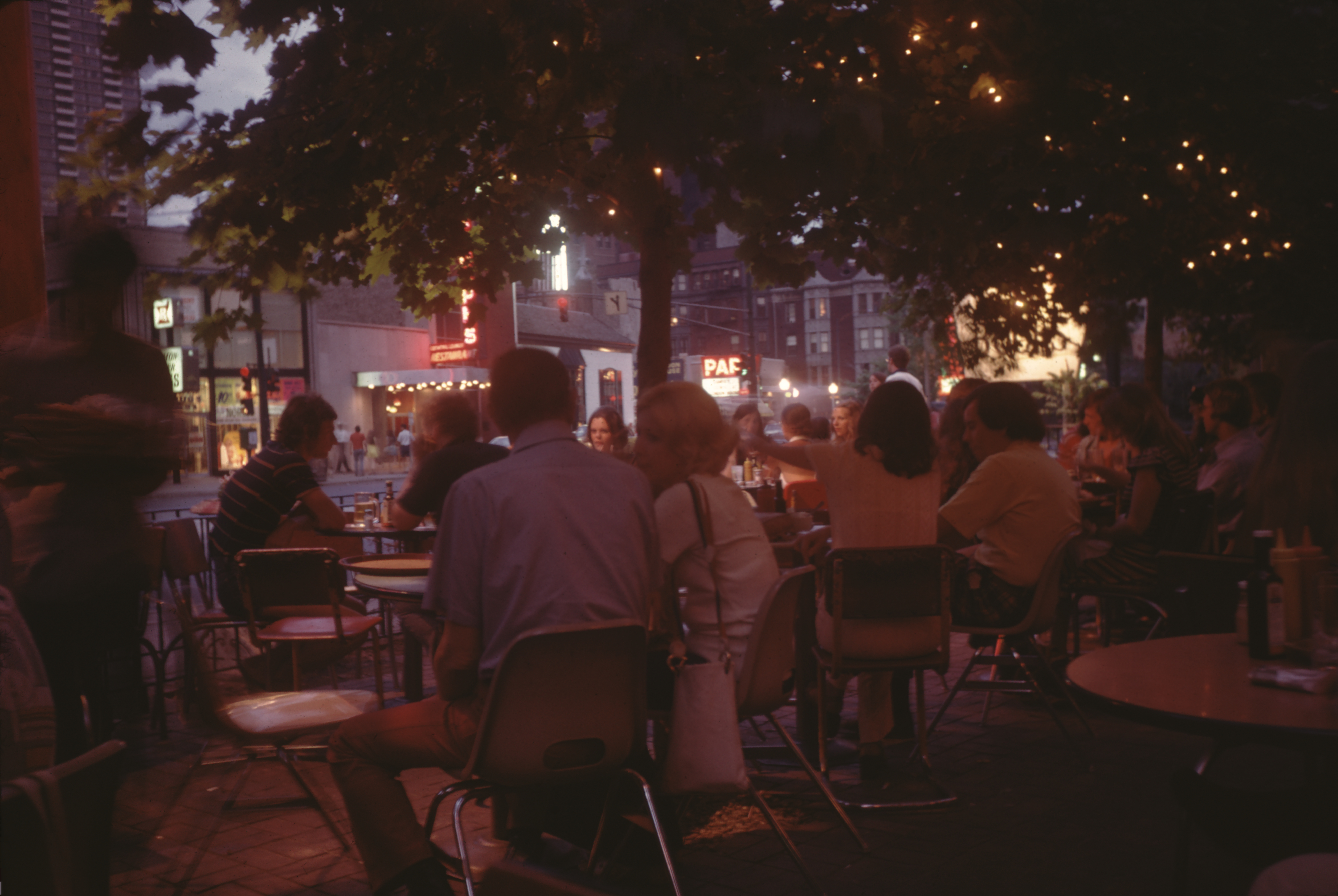 Photography by Victor Albert Grigas (1919-2017) Chicago dinner 1972 MELVIN MONTAGE 00409 (47973842481).jpg